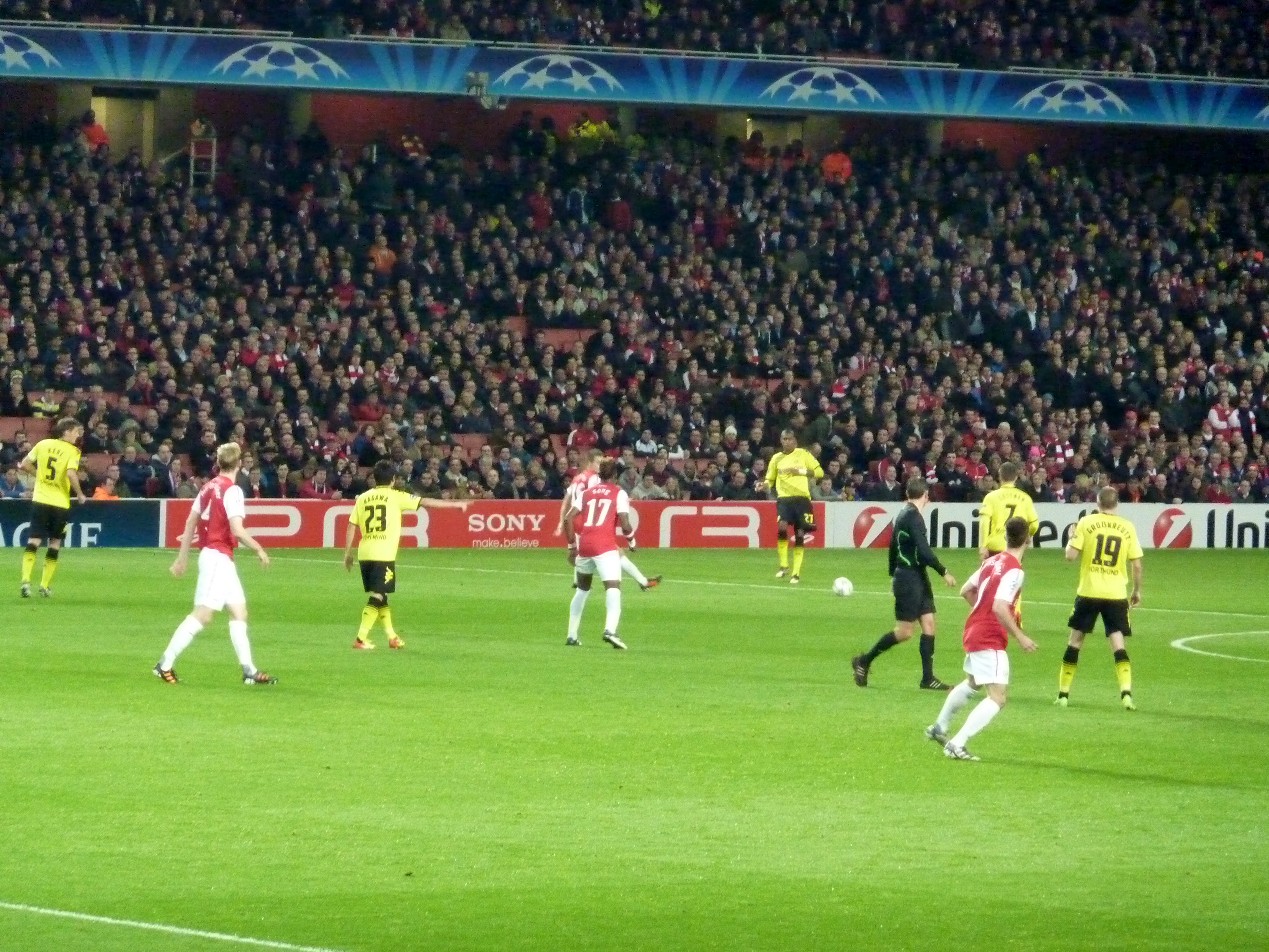 Arsenal against Borussia Dortmund in the UEFA Champions League